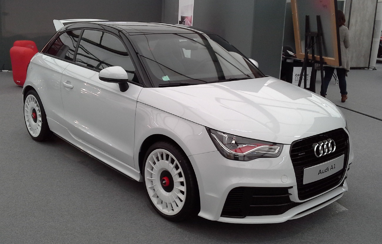 Audi A1 Quattro photographed at the 2014 Avignon Motor Festival in Avignon, France.